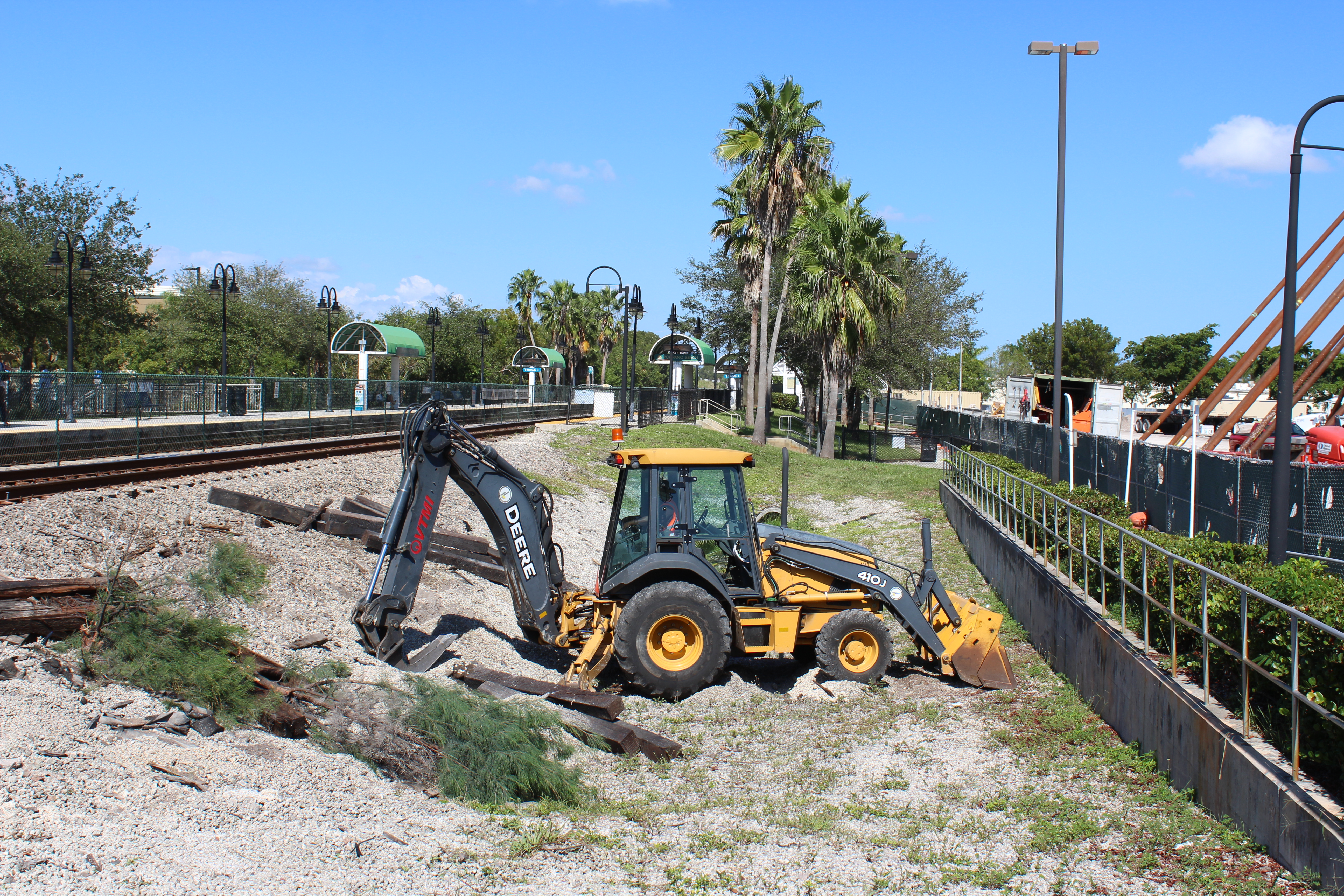 Pompano Beach station being rebuilt in late 2015. New garage and Tri-Rail headquarters being built.